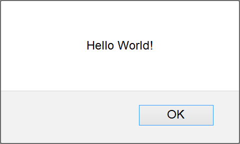 Screenshot of a "Hello World!" program created using JavaScript in Firefox 31.